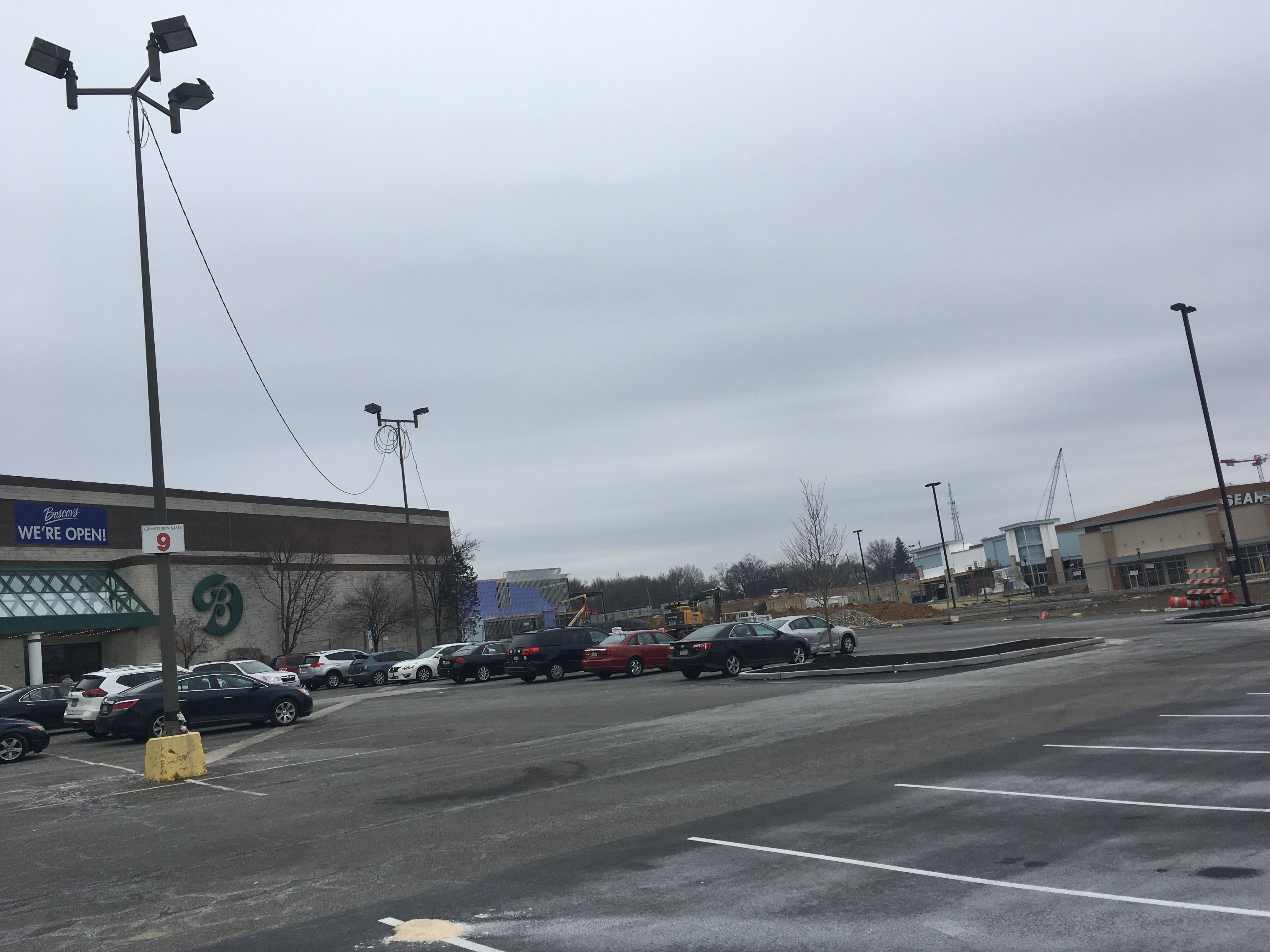 Construction of the Promenade at Granite Run on the former site of the Granite Run Mall in Middletown Township, Pennsylvania